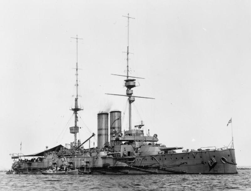 British battleship HMS AFRICA.